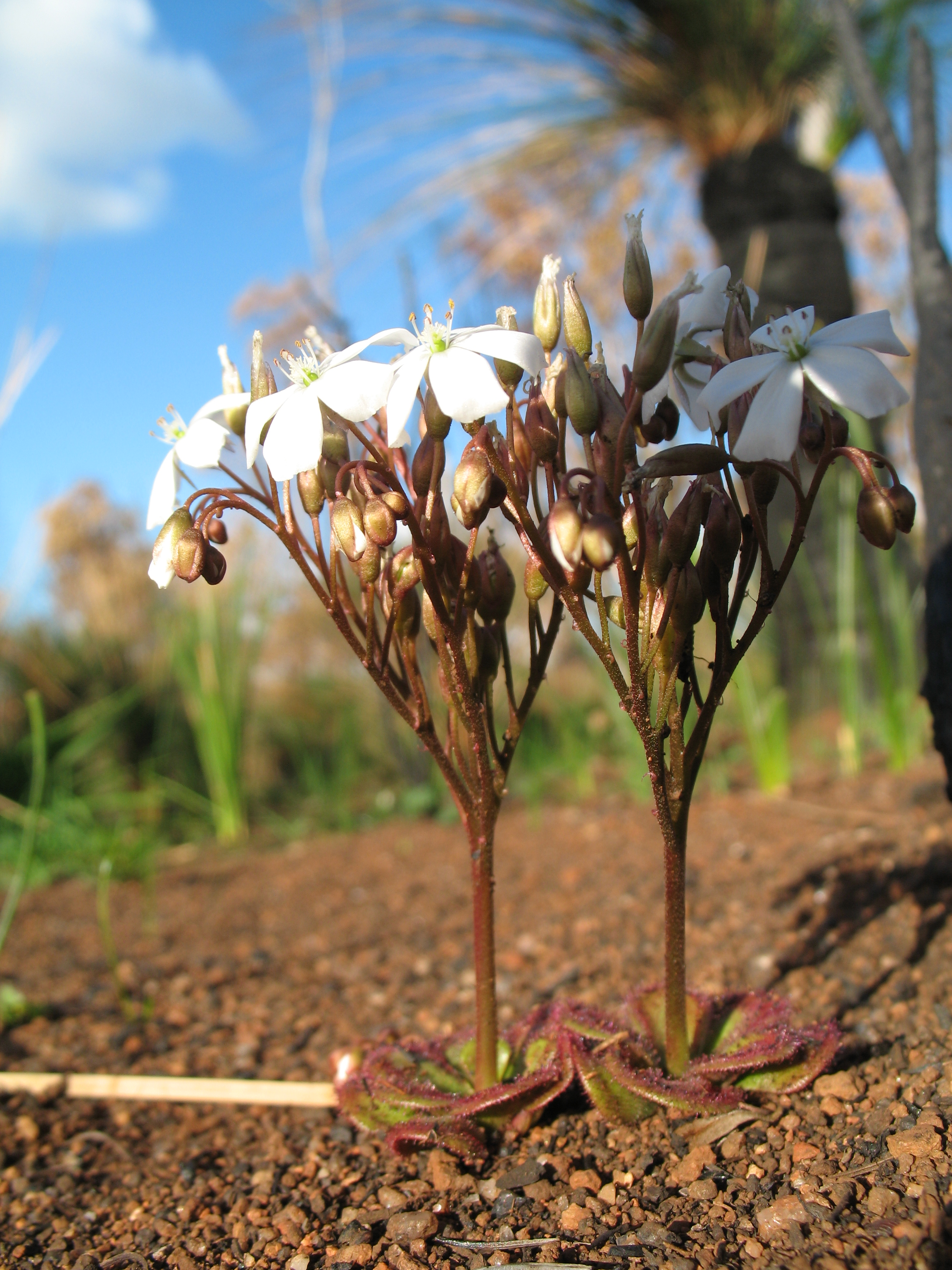 Drosera erythrohiza subsp. squamosa Gooseberry Hill National Park, Western Australia